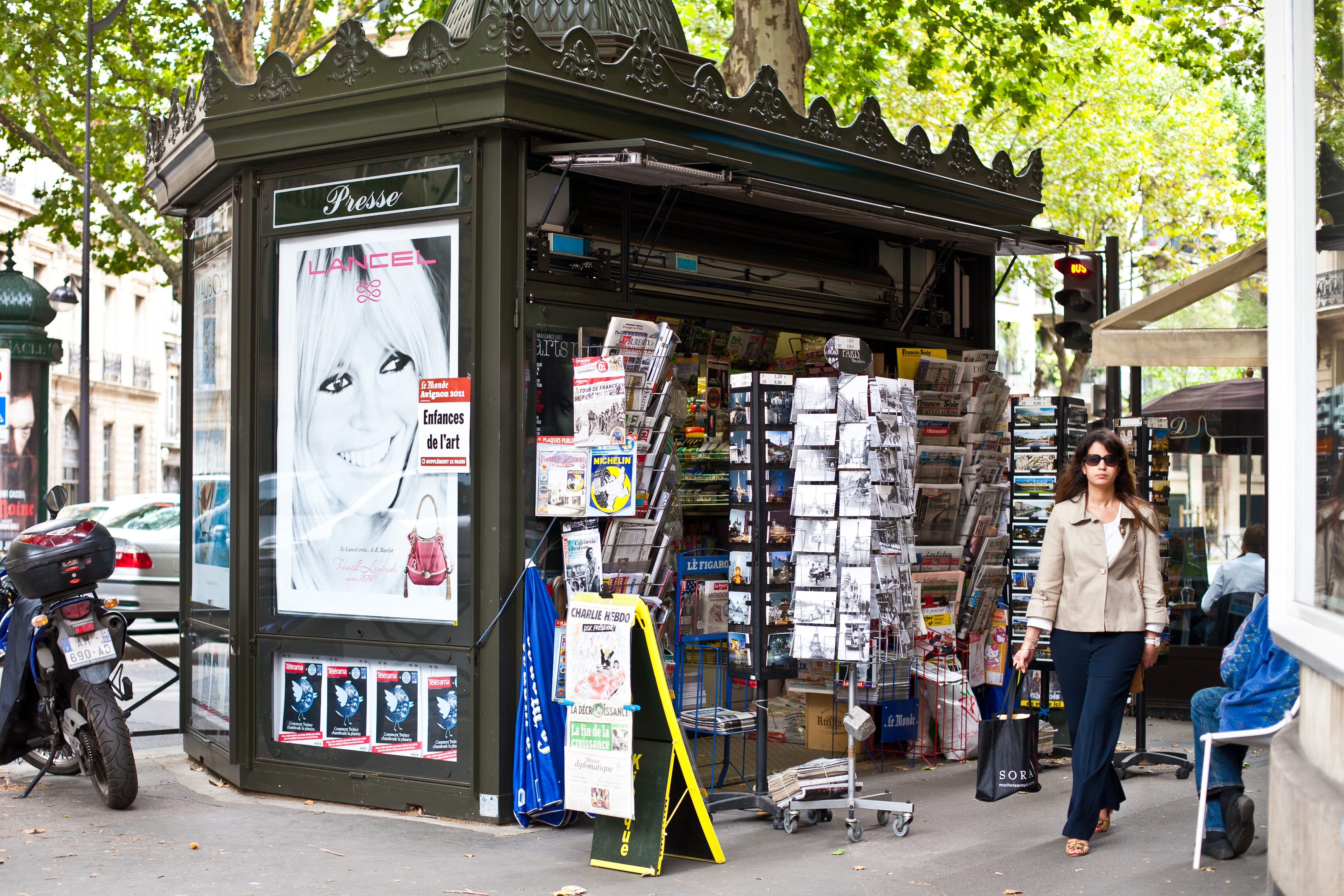 Newsstand in Paris.